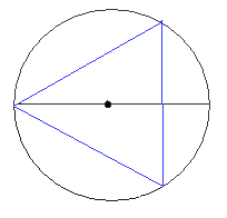 An extremely crude illustration of the of a Steiner construction by the person generally referred to as "Nousernamesleft" on the Wikimedia projects.